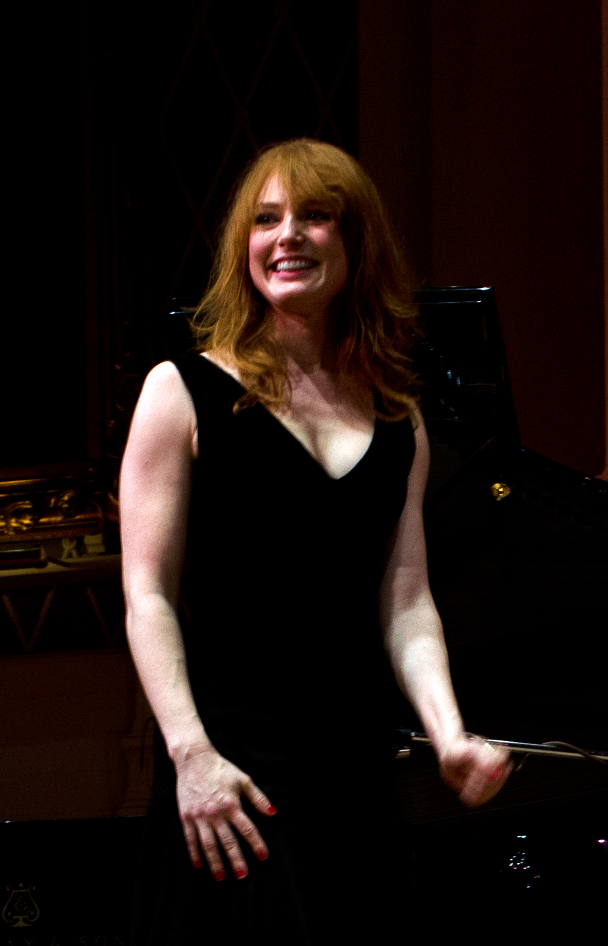 Alicia Witt at Mechanics Hall in Worcester, MA Photo 02